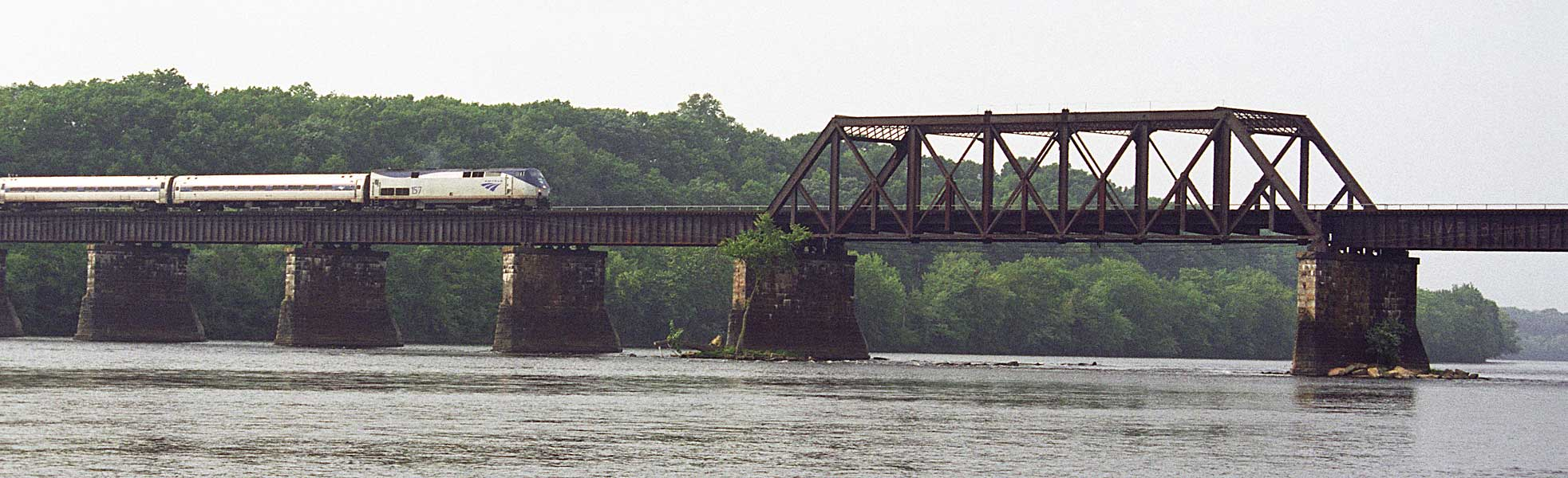 Warehouse Point railroad bridge in August 2007 with an Amtrak train crossing